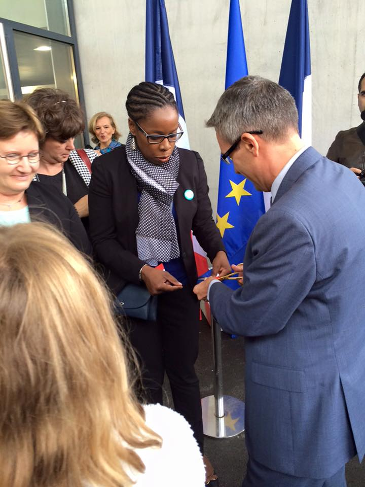 Inauguration du nouveau collège Didier Daurat au Bourget